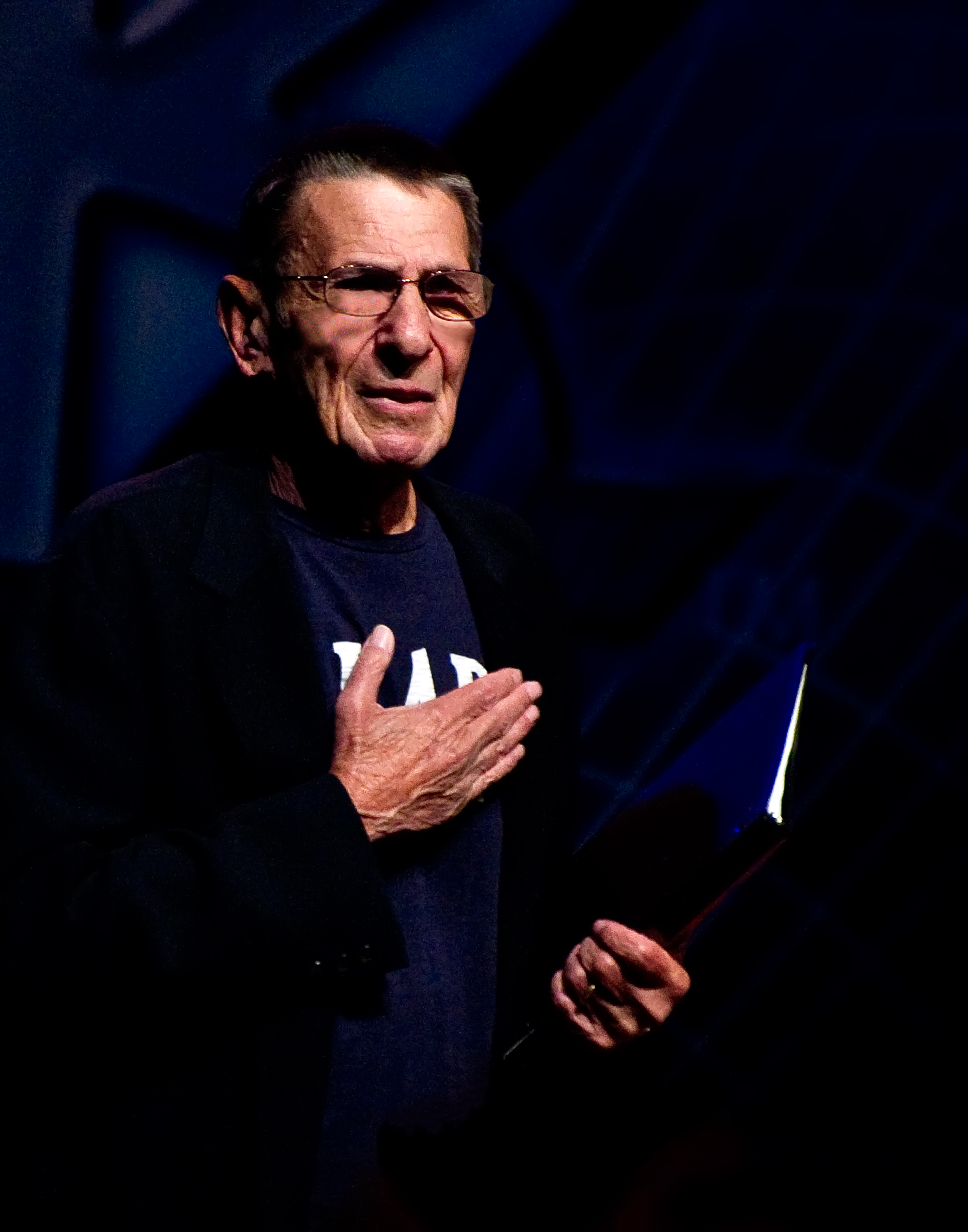 Leonard Nimoy (Spock) at the Las Vegas Star Trek Convention 2011.